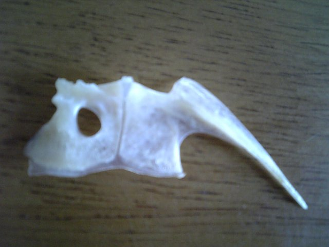 鯛の鯛 Bones of Pagrus major. Scapula (left) and Coracoid (right).